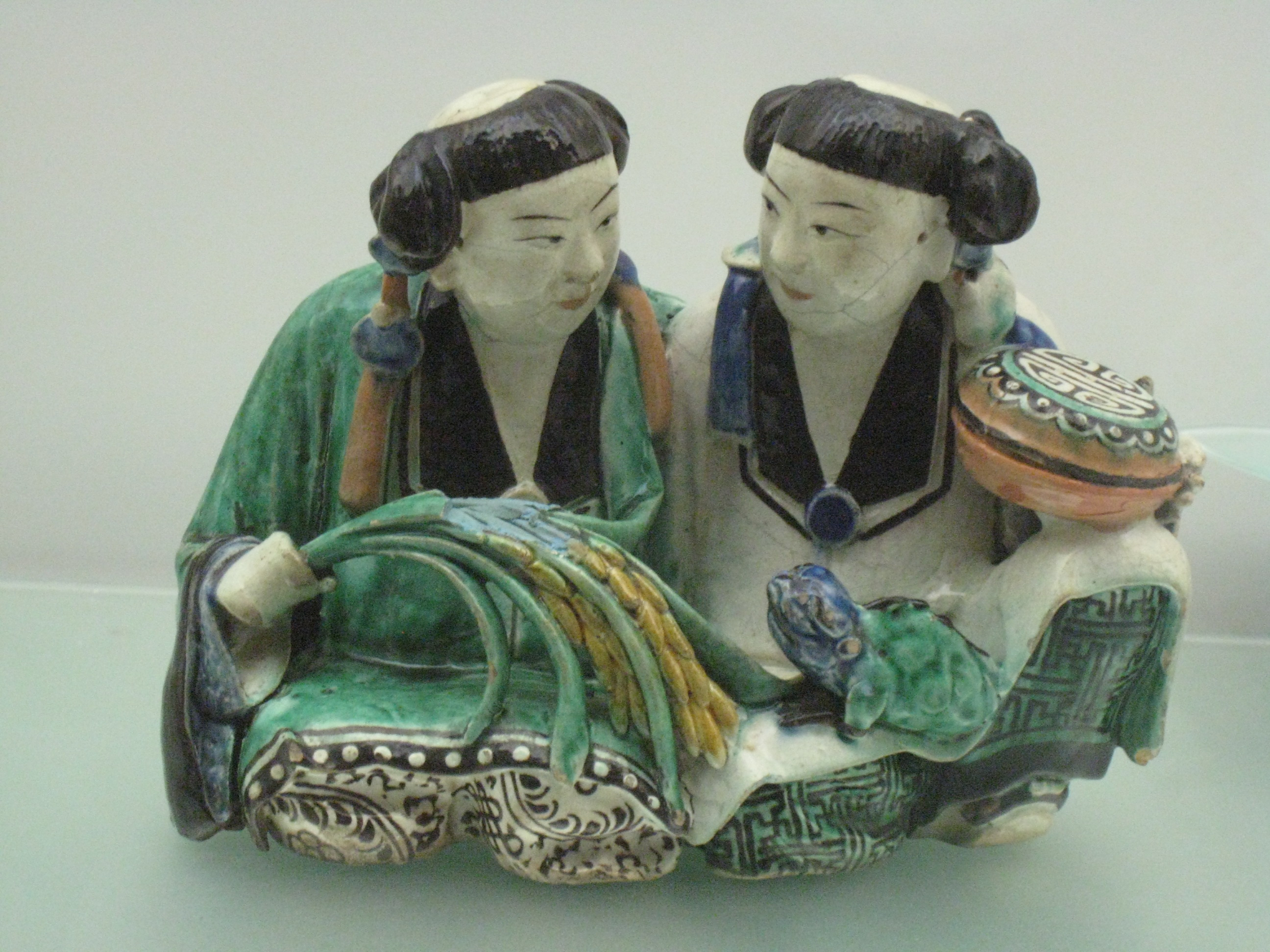 a china statue of He He Er Xian in Hong Kong Museum of Art